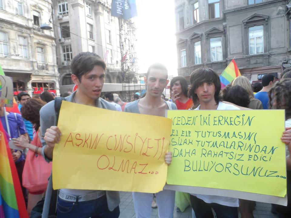 banners for LGBT rights.